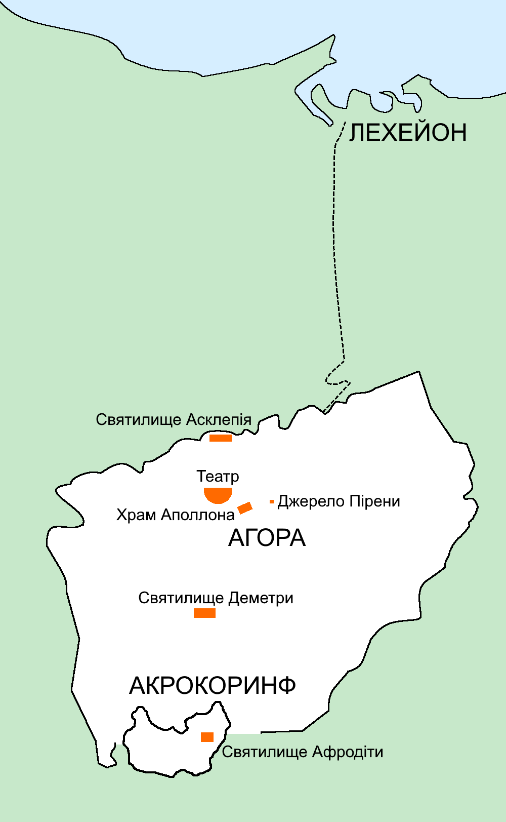 Map of Corith in the Archaic Time